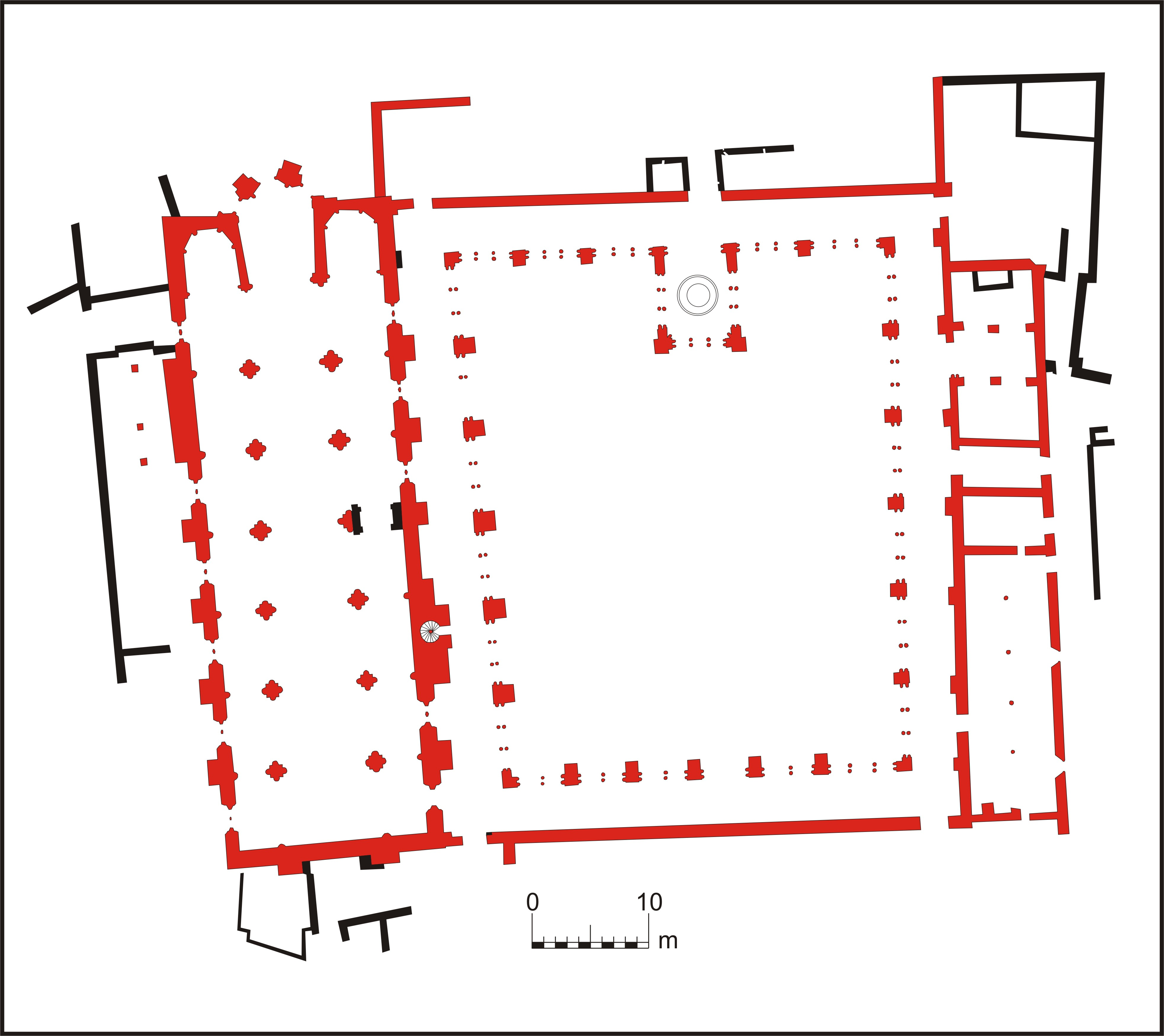 Mosteiro de Santa Clara-a-Velha plan. Red- gothic buildings Black- later addictions